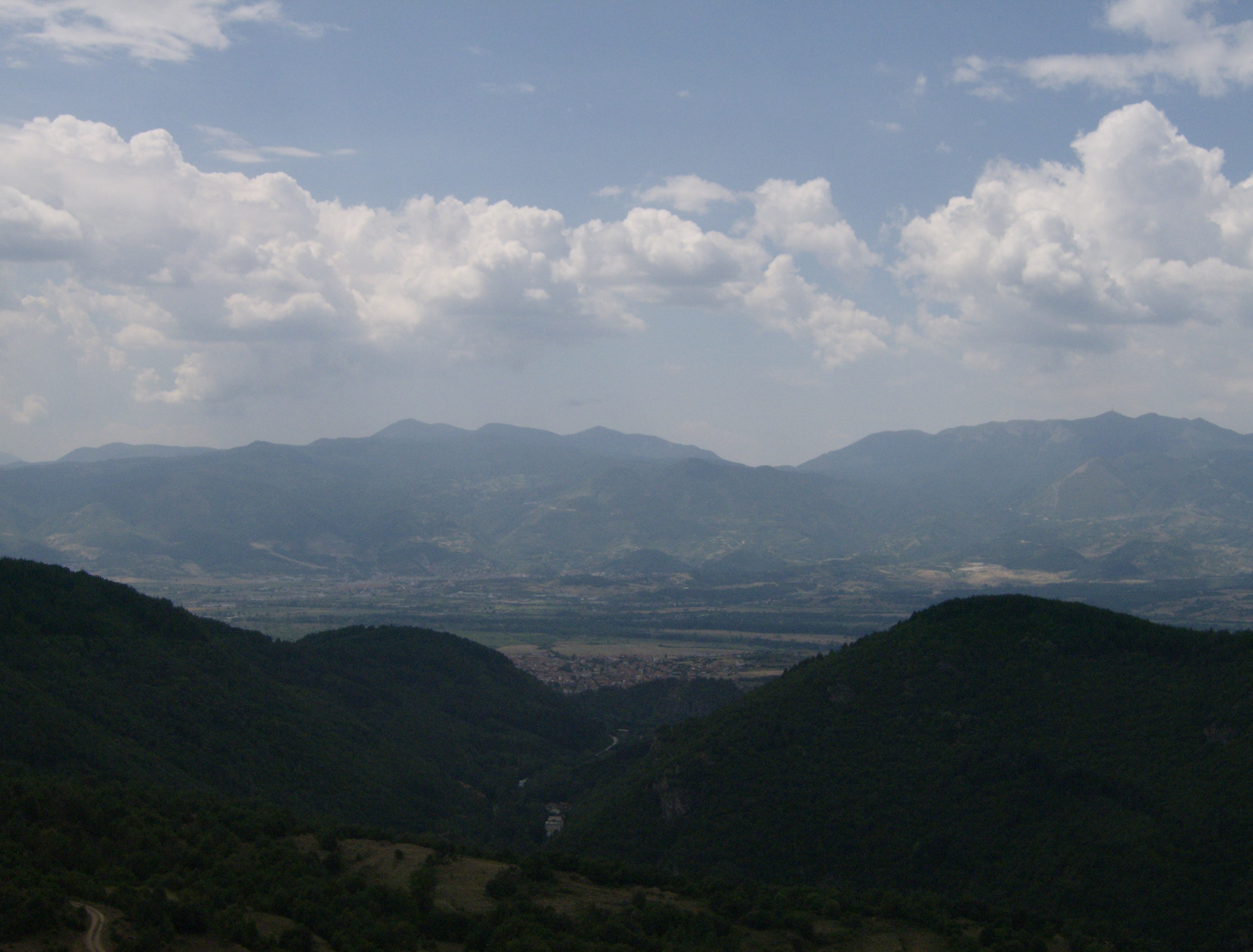 Gotse Delchev valley from Leshten